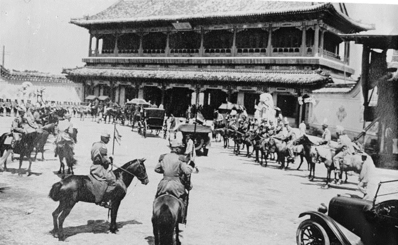 China, Peking, Sowjet. Botschafter Karachan fährt zur Audienz Information added by Wikimedia users.Arrival of Soviet Ambassador to Lev Karakhan at Zhongnanhai in Beijing